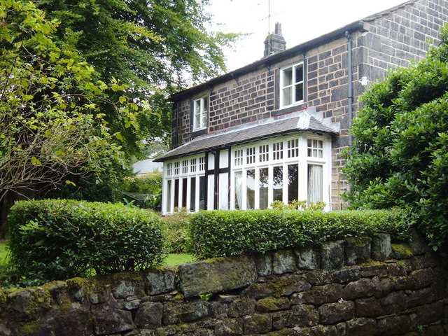 House in Walsden. John Cockcroft lived here from the age of two until he was 28 years old. Seven years later he split the atom. His blue plaque can be seen here 513472